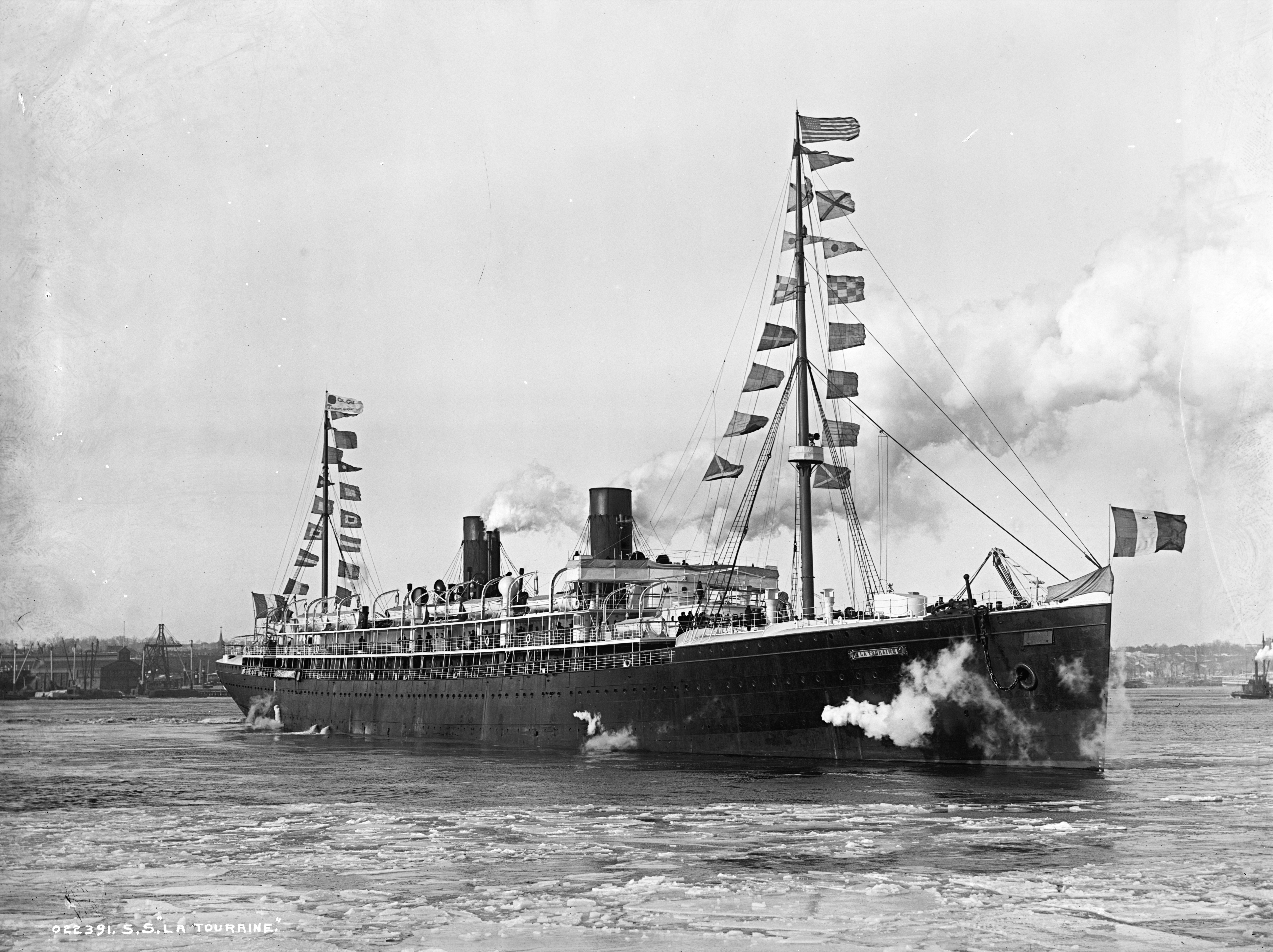 French ocean liner SS La Touraine. Information from source: TITLE: S.S. La Touraine CALL NUMBER: LC-D4-22391 [P&P] REPRODUCTION NUMBER: LC-D4-22391 (b&w glass neg.) MEDIUM: 1 negative : glass ; 8 x 10 in. CREATED/PUBLISHED: [1892?] CREATOR: Johnston, John S., photographer. RELATED NAMES: Detroit Publishing Co., publisher. NOTES: Attribution based on style of title and numbering. Negative cracked and taped right center. Detroit Publishing Co. no. 022391. Gift; State Historical Society of Colorado; 1949. SUBJECTS: La Touraine (Ocean liner), Ocean liners. FORMAT: Dry plate negatives. PART OF: Detroit Publishing Company Photograph Collection REPOSITORY: Library of Congress Prints and Photographs Division Washington, D.C. 20540 USA DIGITAL ID: (digital file from intermediary roll film) det 4a15925 CONTROL #: det1994011753/PP